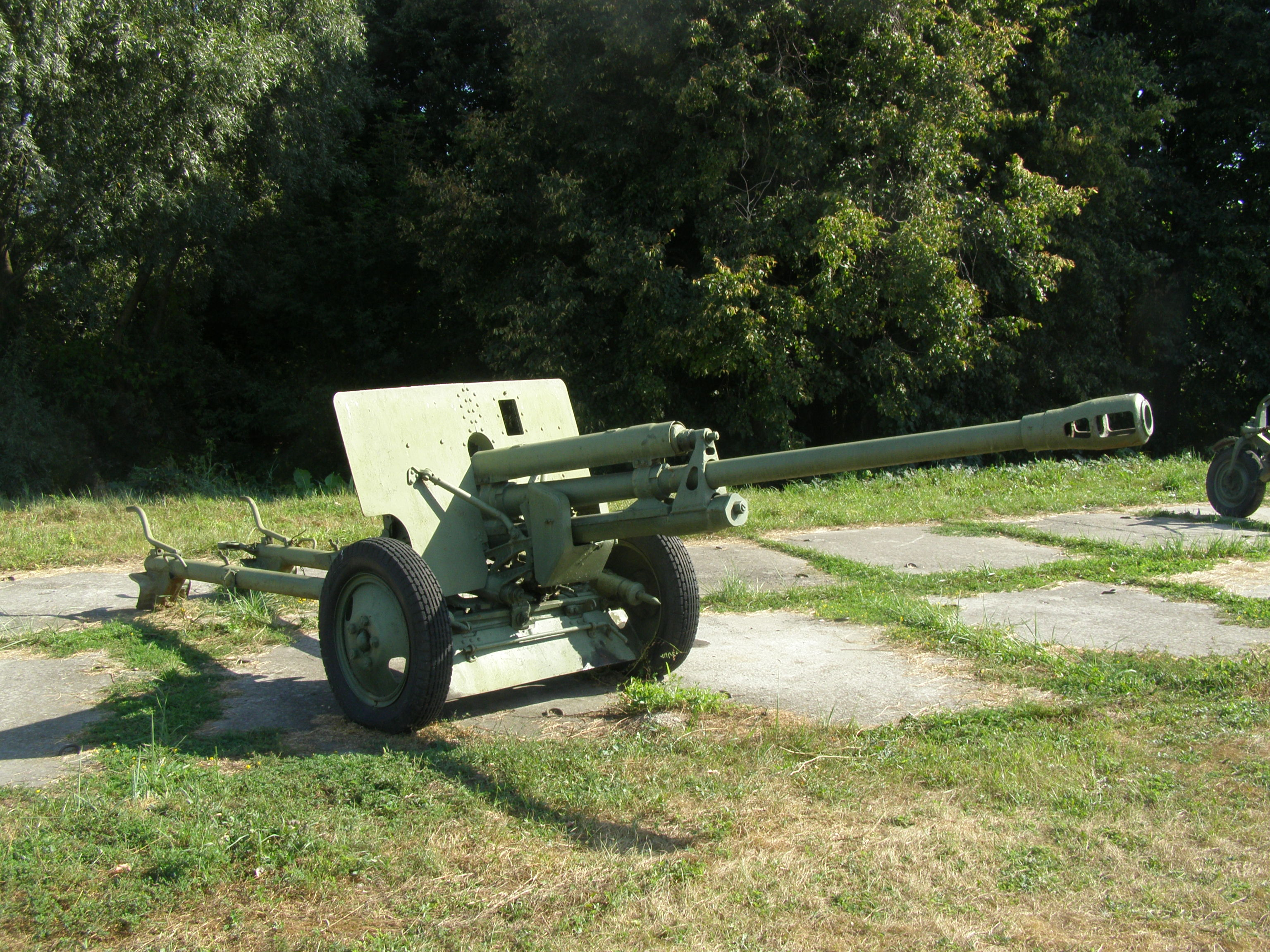 Soviet ZIS-3 76 mm gun, is displayed at the Memorial Mound of Glory in Pereiaslav-Khmelnytskyi (Ukraine)